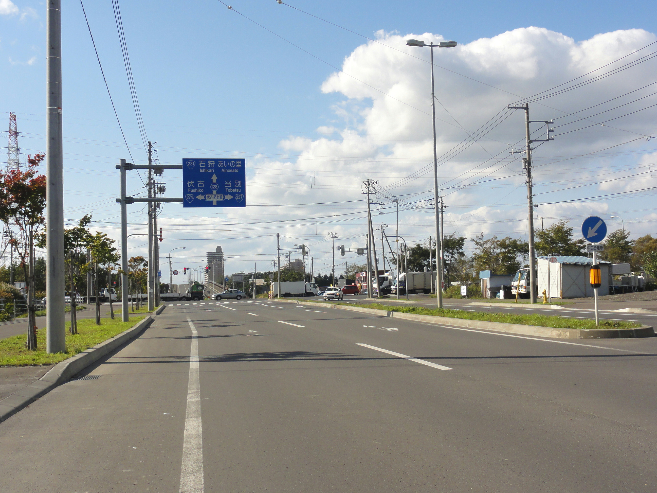 Hokkaido Pref Route 128 (Kita-ku, Sapporo, Hokkaido))